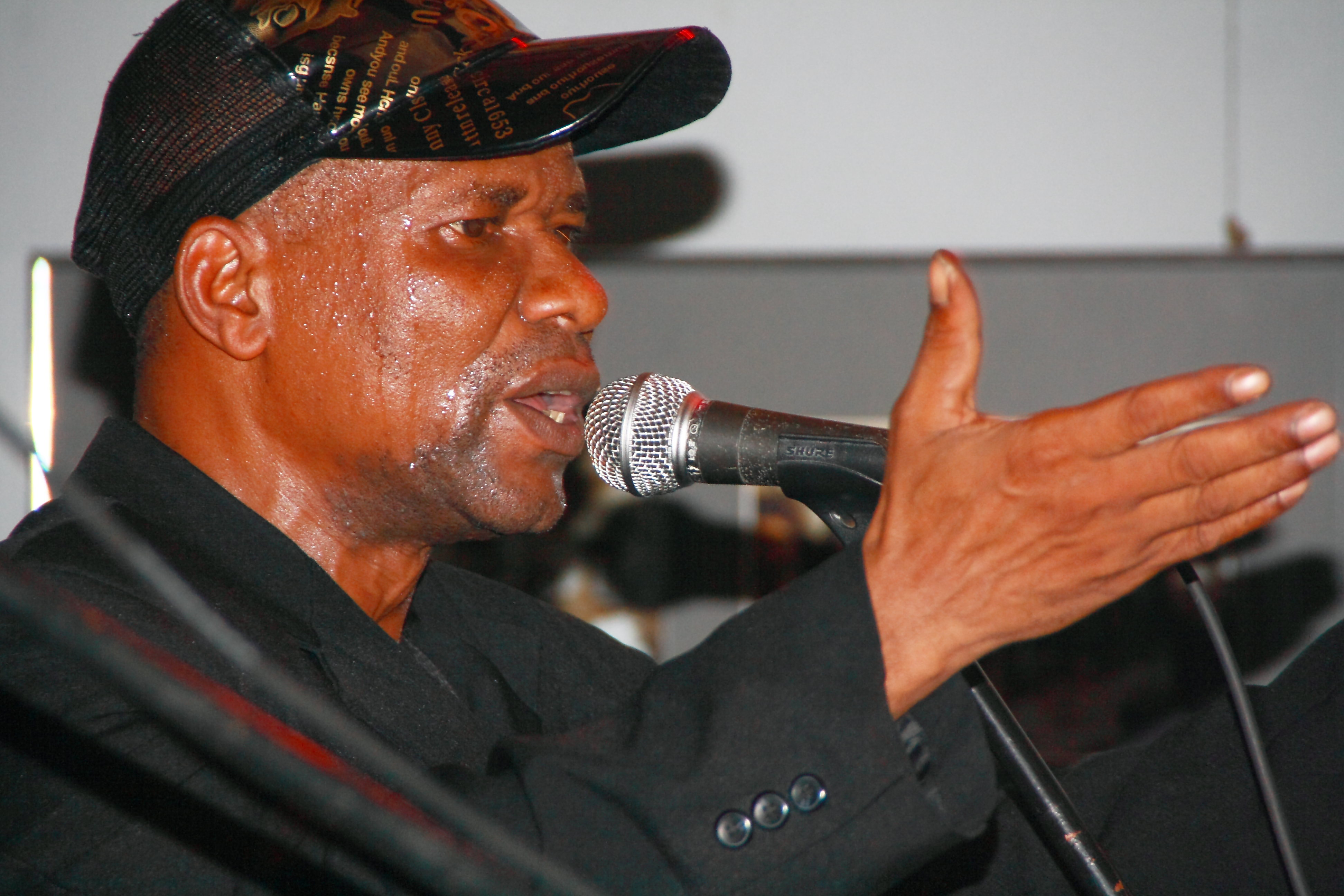 Mawangu Mingiedi with Konono N°1 at Club W71, Weikersheim.